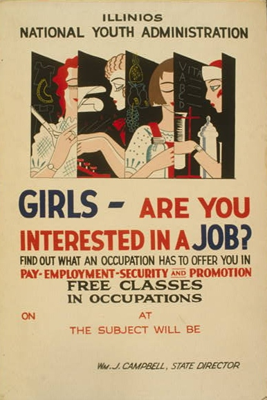 Poster for Illinois branch of the National Youth Administration promoting educational opportunities for young women seeking training for employment. Illinois is misspelled "ILLINIOS".